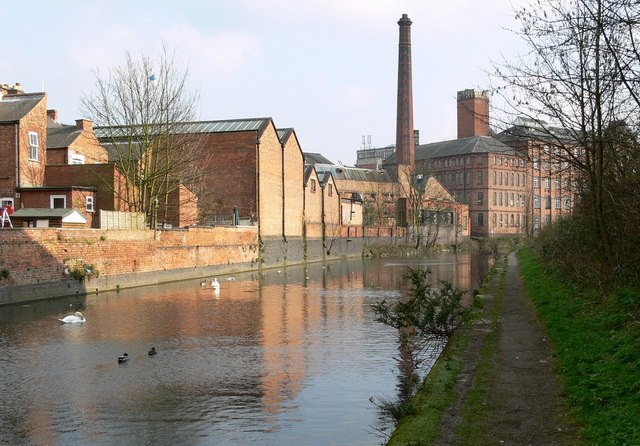 Grand Union Canal and Factories in Leicester. The houses visible to the left of the photograph are located on Marjorie Street in Leicester.